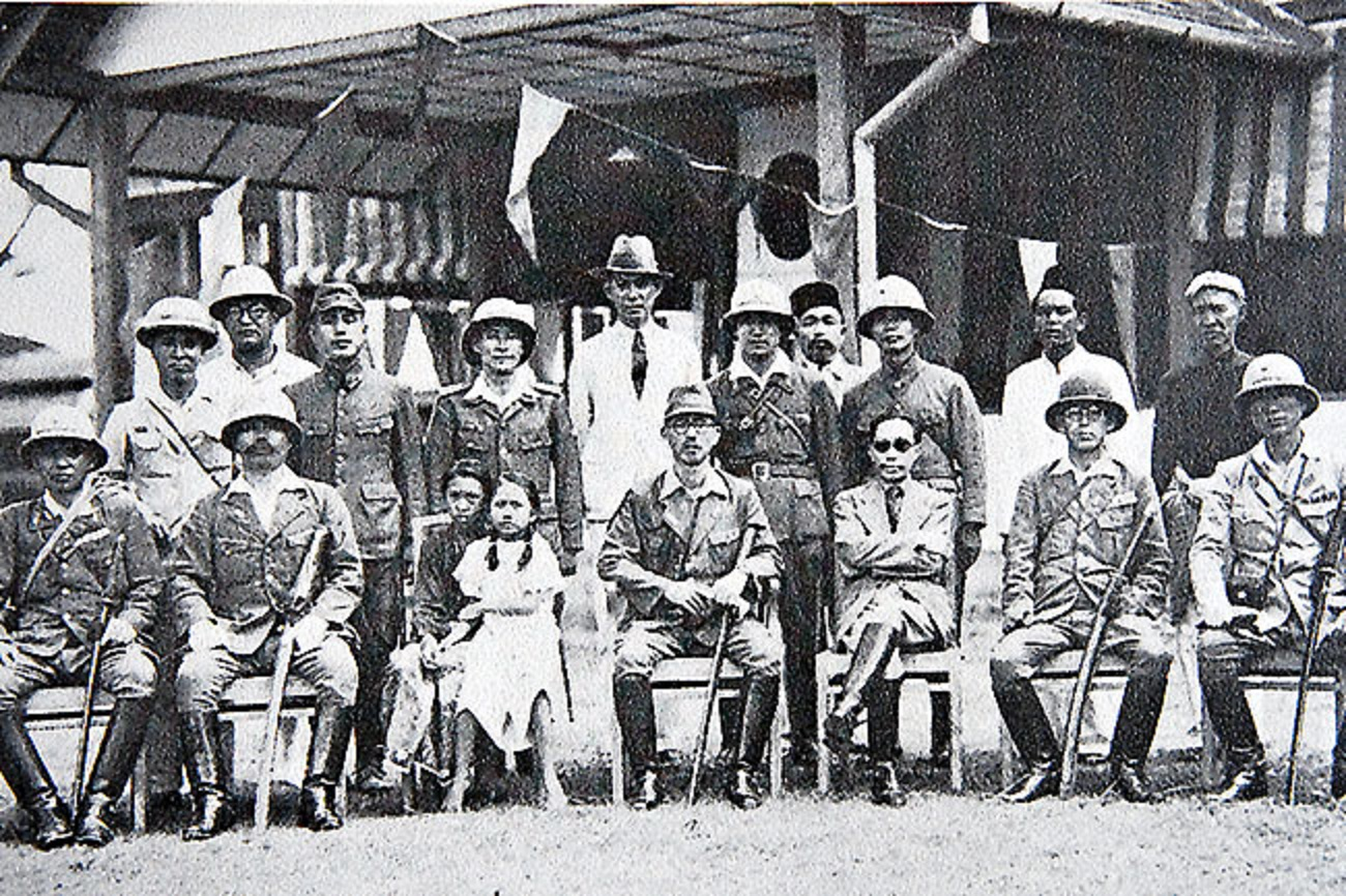 Ahmad Tajuddin during Japanese occupation